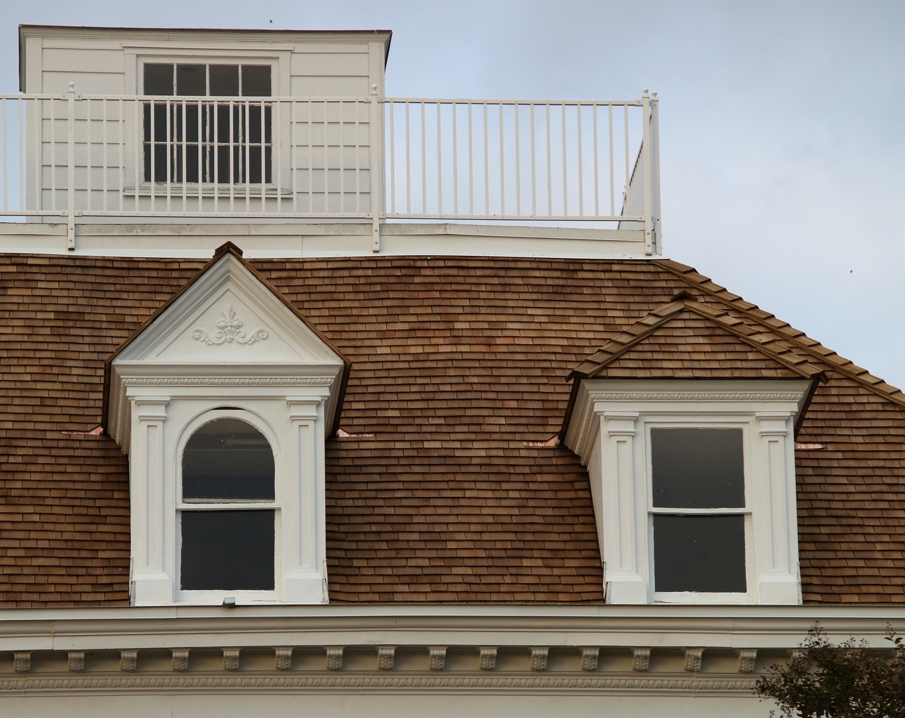 Gabled dormer and hipped dormer below the Widow's walk - Gaithersburg, MD